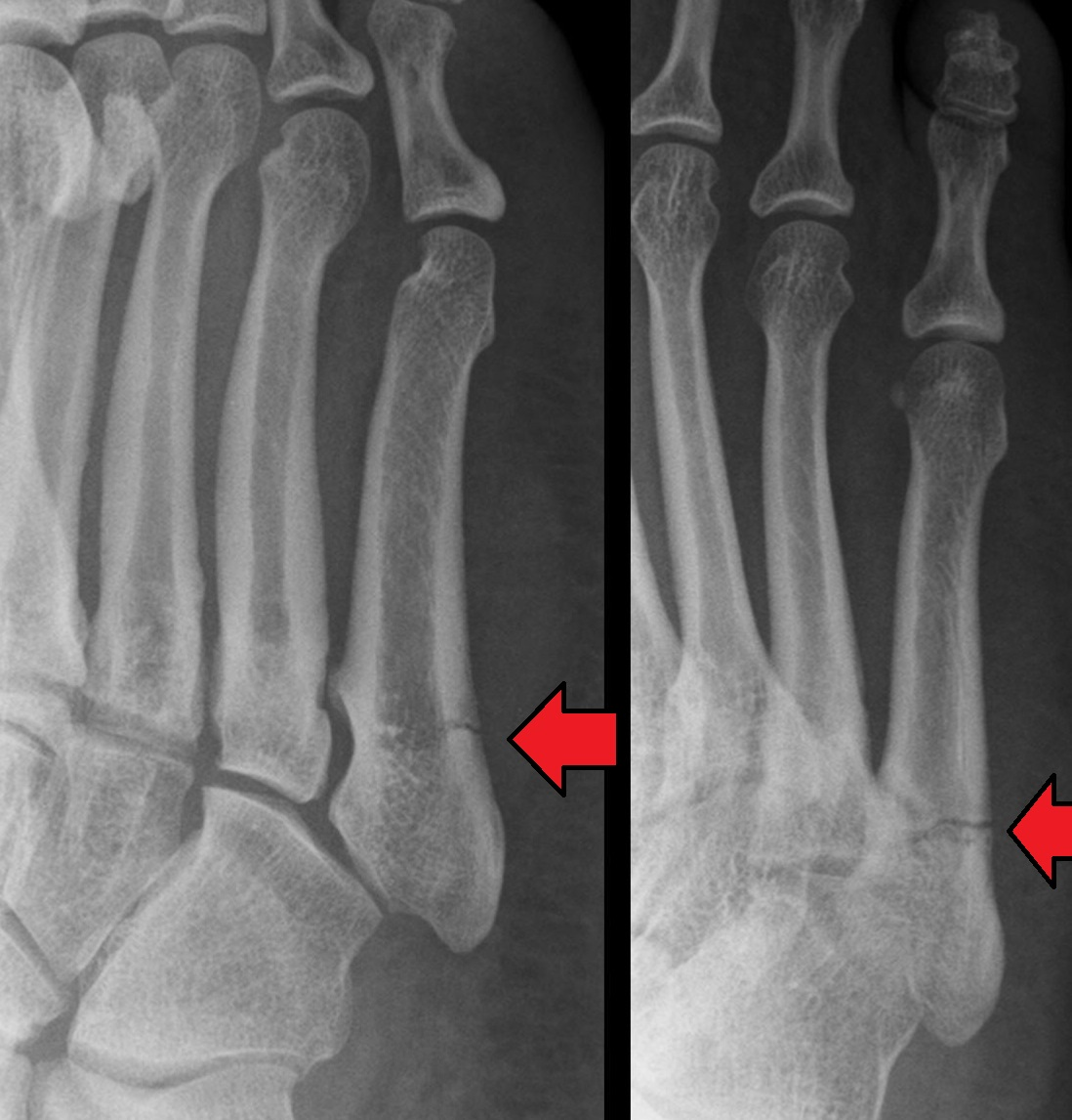 This is a retouched picture, which means that it has been digitally altered from its original version. Modifications: cropped. The original can be viewed here: Jonesfracture.jpg. Modifications made by MdScottis. Original author Lucien Monfils